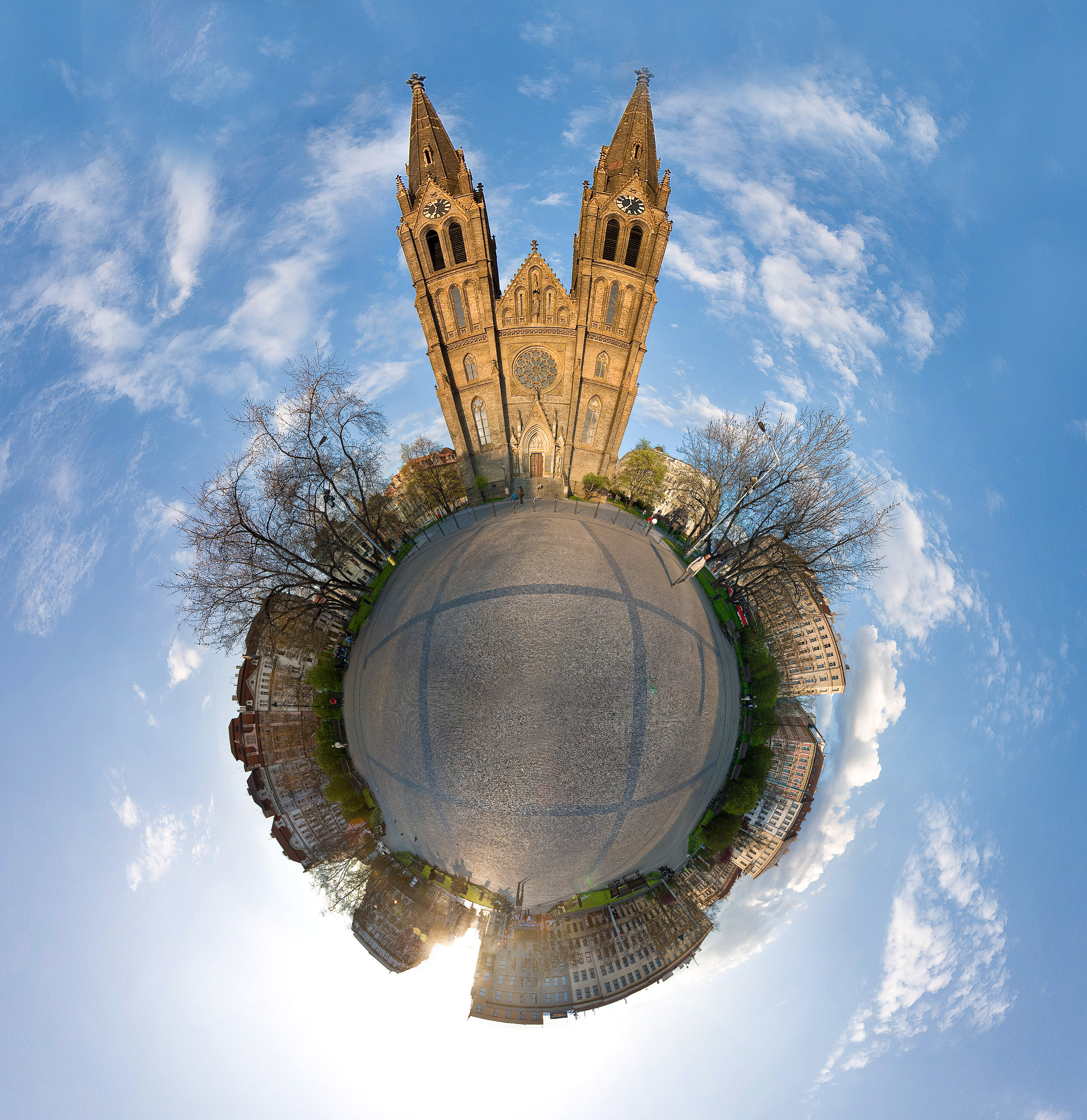 right by namisti miru metro stop. 24 photos stitched with PTGUI. autopano pro failed me on this one. FAILED ME.